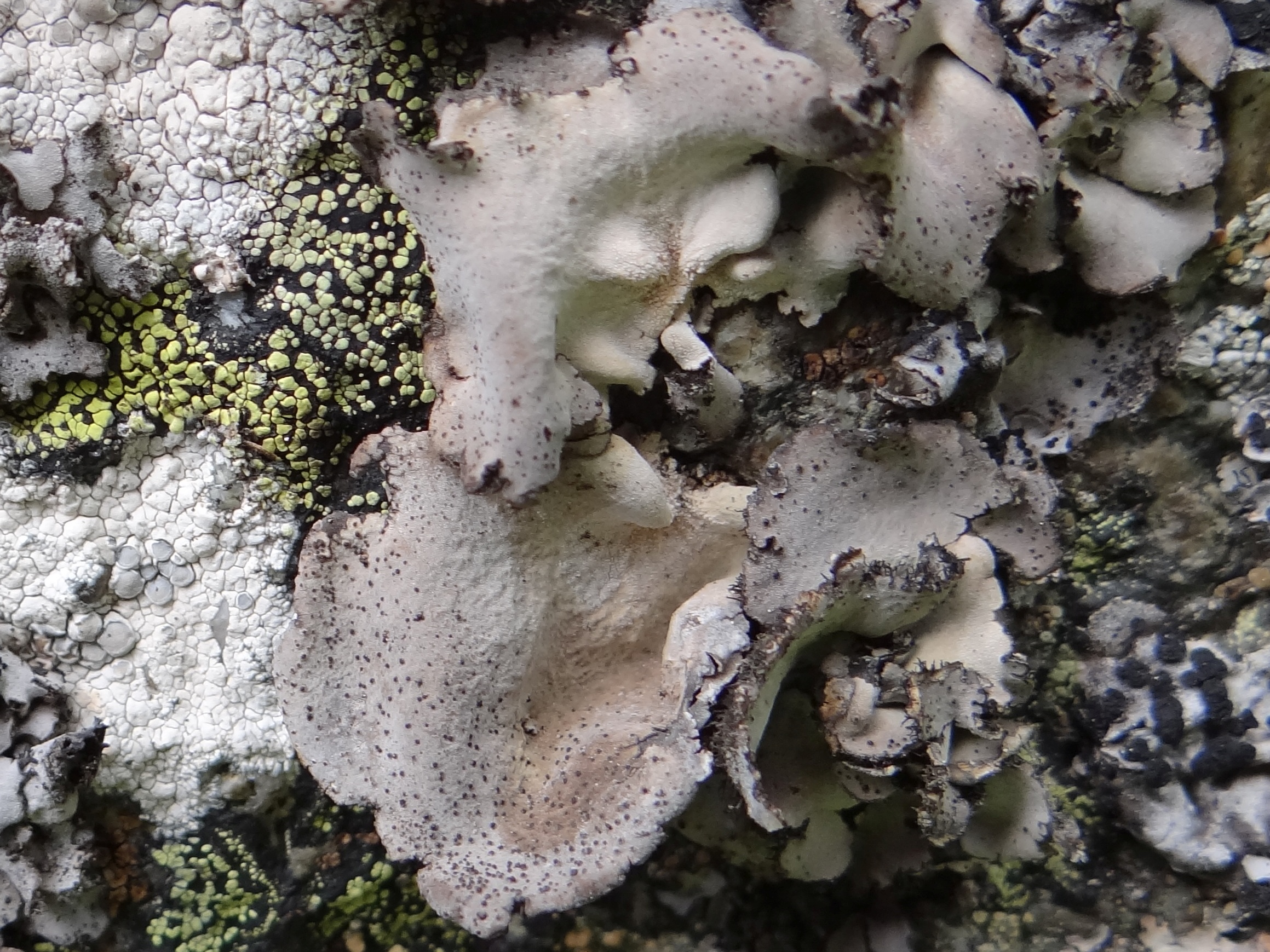 Dermatocarpon miniatum and other lichenes (location: Slowakia, Niżne Tatry)